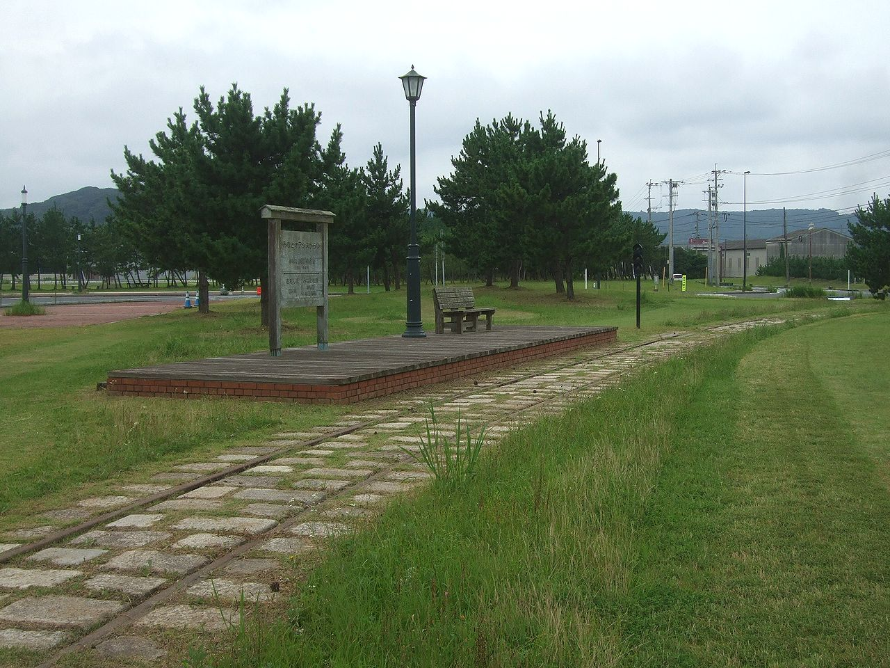 Minato Oasis Karatsu, the monument of Karatsu Line Oshima Station, Higashioshima-Machi, Karatsu City, Saga, Japan.